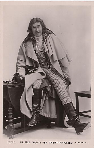 Postcard of Fred Terry in The Scarlet Pimpernel, 1905